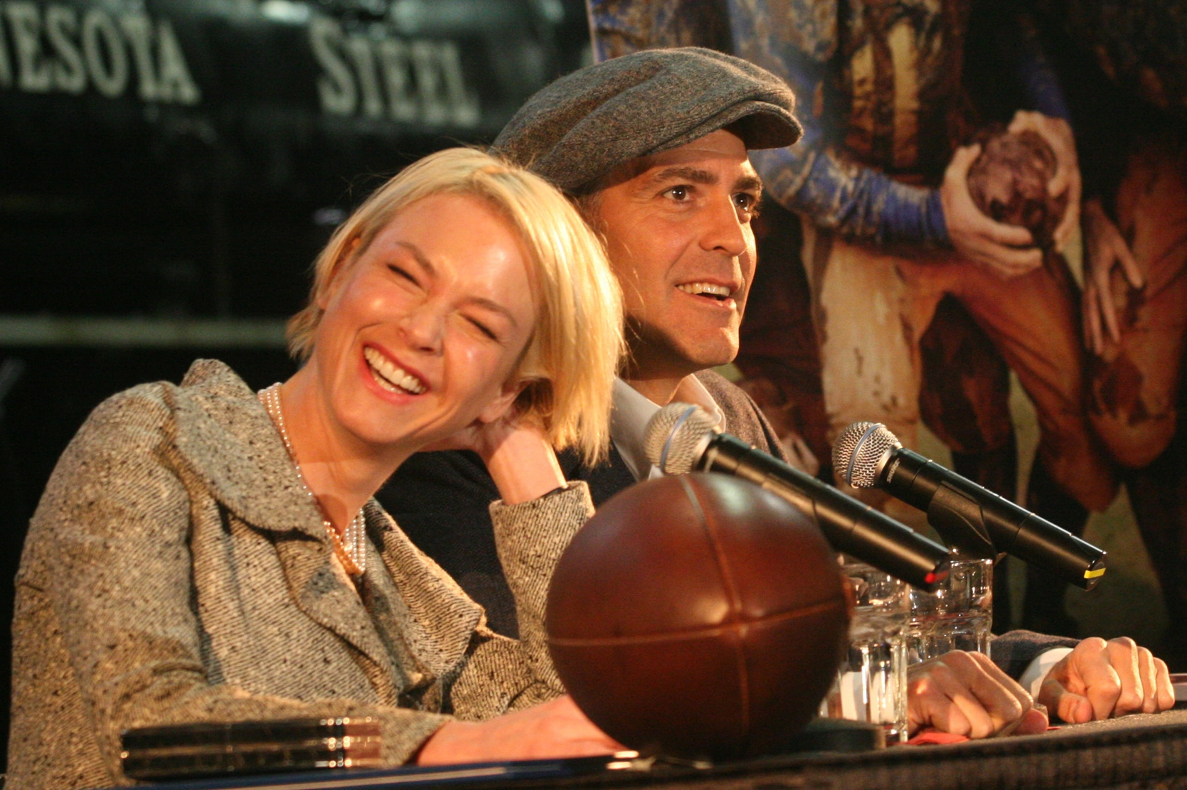 Renée Zellweger, and George Clooney talk during a press conference at the Duluth Train Depot, in Duluth, Minn., on Monday March 24, 2008. This was the first city of the press tour for the new movie "Leatherheads", a romantic comedy inspired by a real football team in Duluth, in 1925, that will open nationwide on April 4, 2008. (PHOTO/Paul M. Walsh)